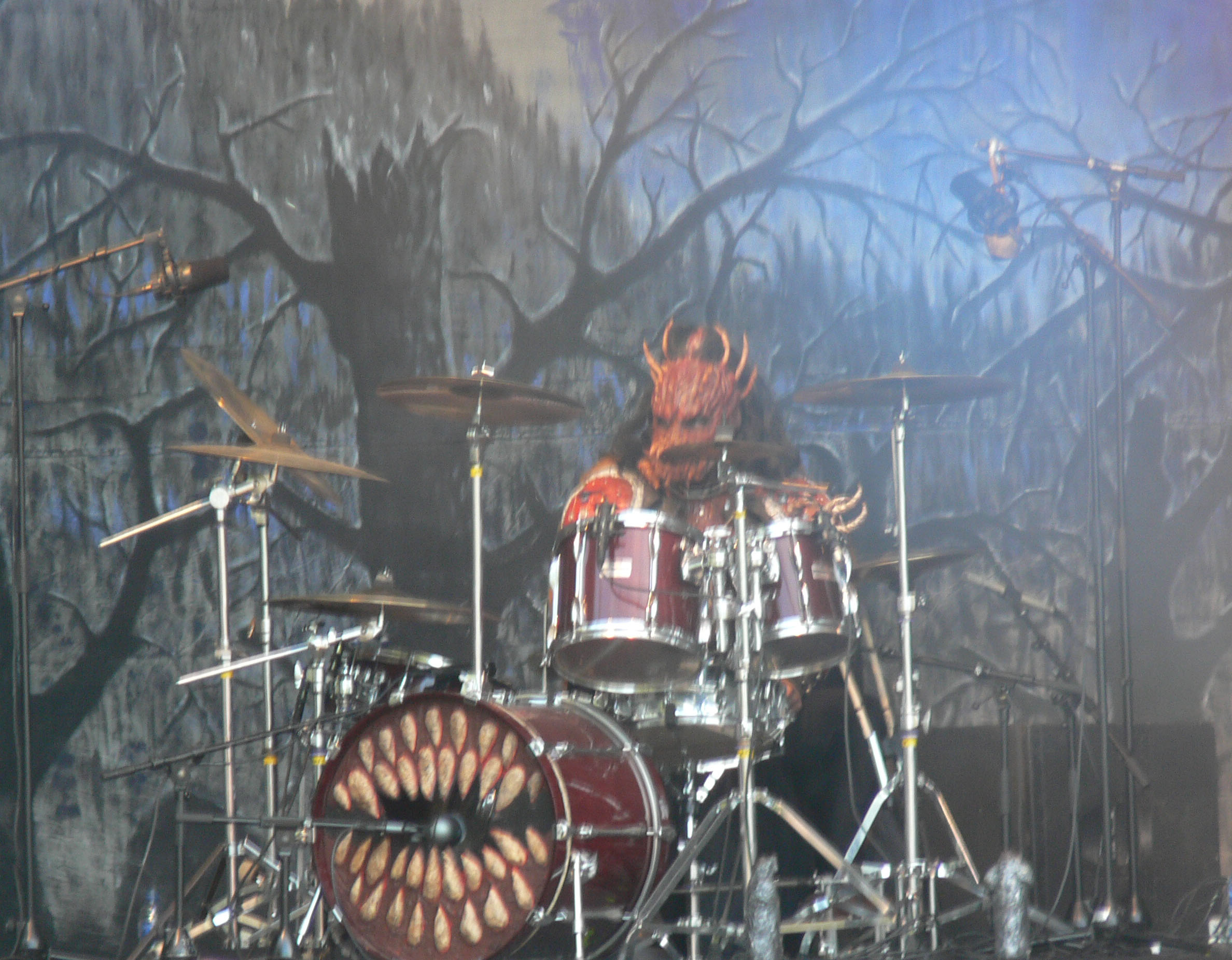 Kita, the drummer of the Finnish hard rock band Lordi, on stage at the Heinolassa Jyrää -concert, in Heinola Finland 2006.